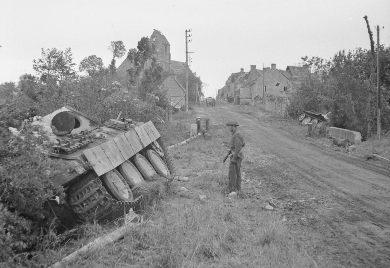 Knocked-out German Panther tanks on the outskirts of Lingevres, 20 June 1944